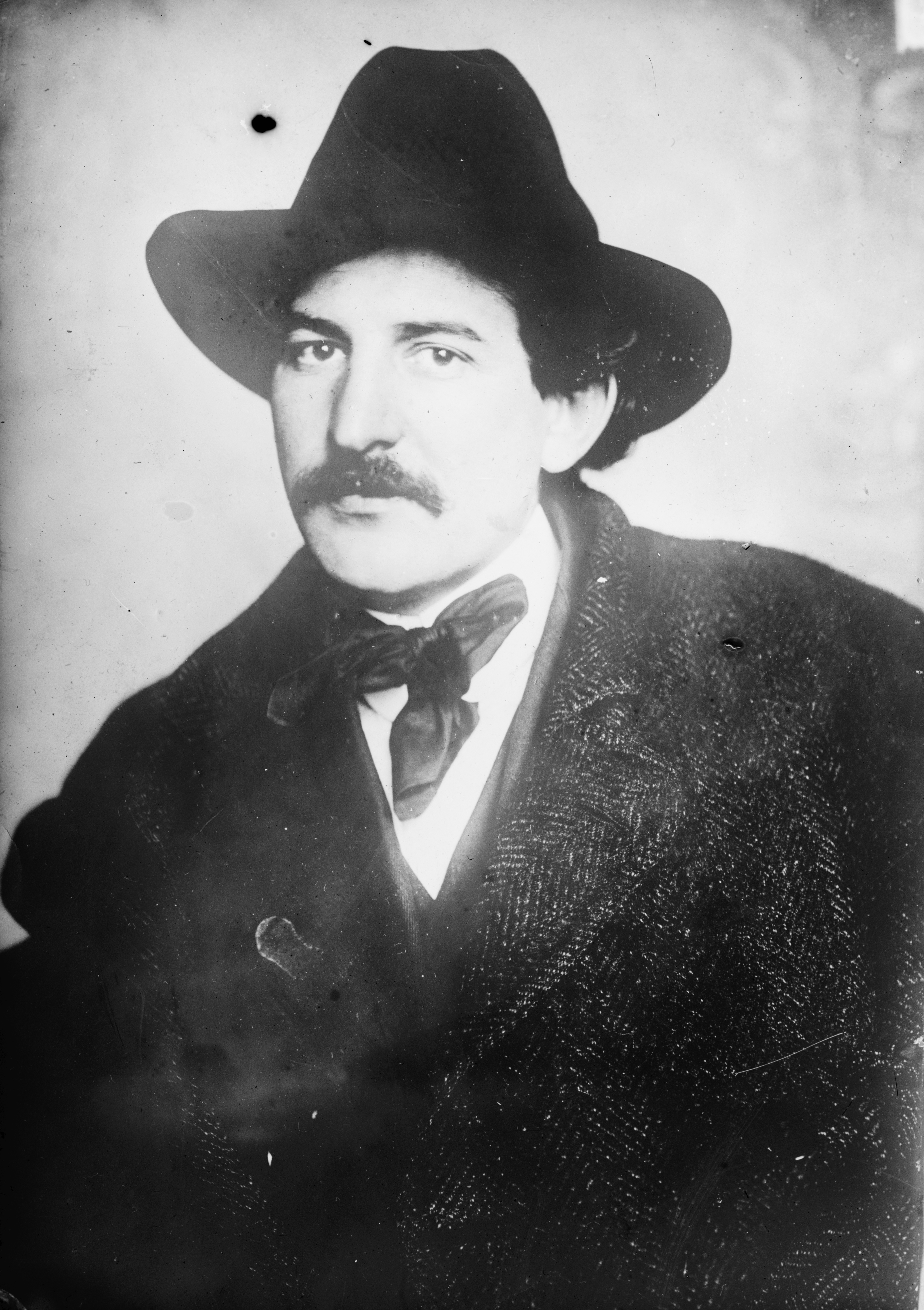 Ben Reitman. Title from unverified data provided by the Bain News Service on the negatives or caption cards. Forms part of: George Grantham Bain Collection (Library of Congress).